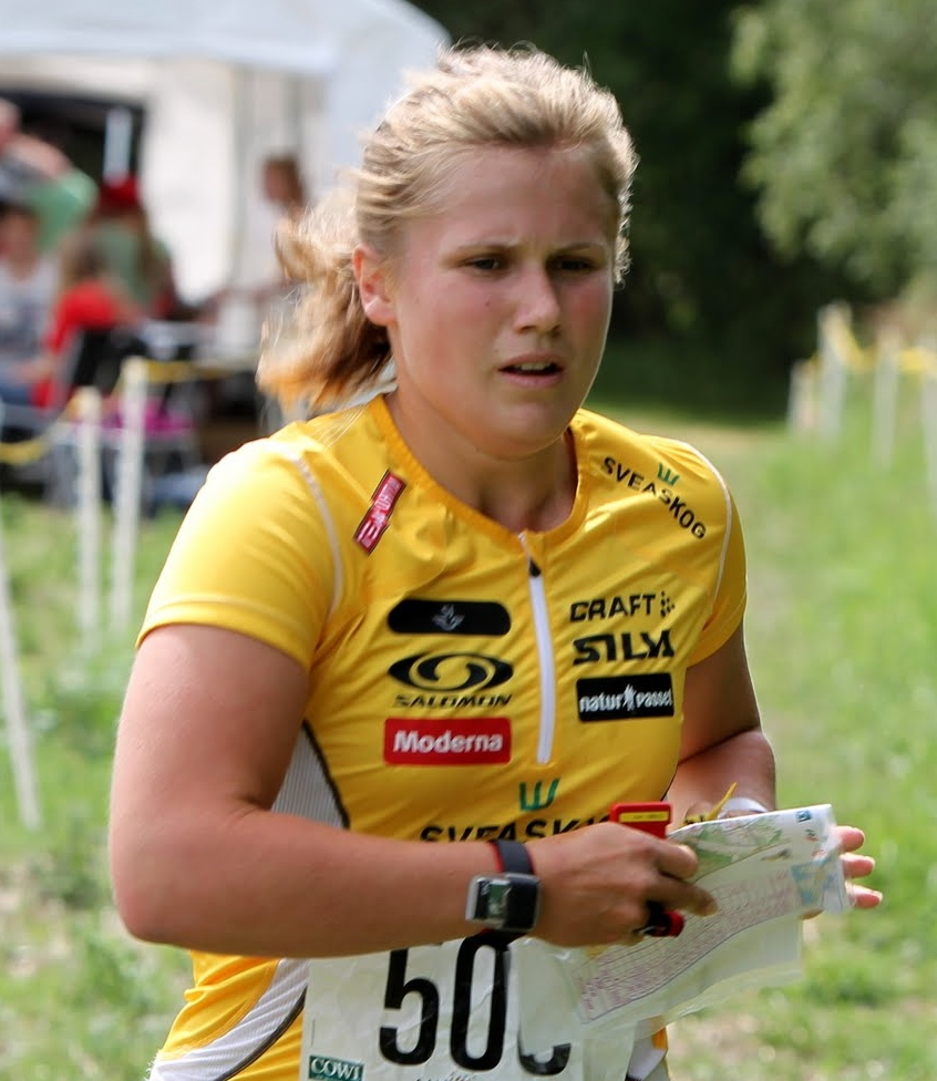 Lilian Forsgren (SWE) at JWOC 2010